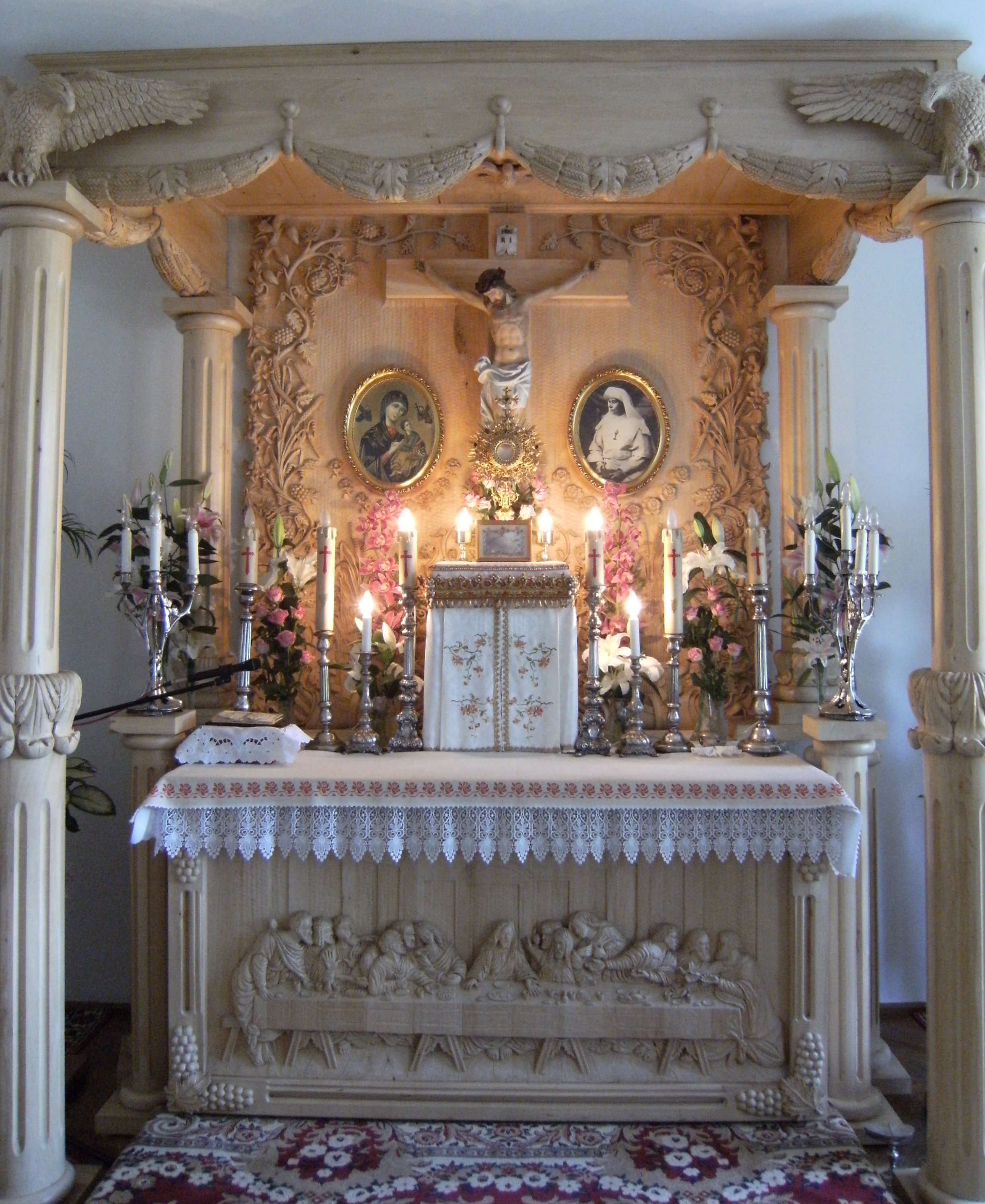 Mariavite Monastery in Felicjanów - into Chapel